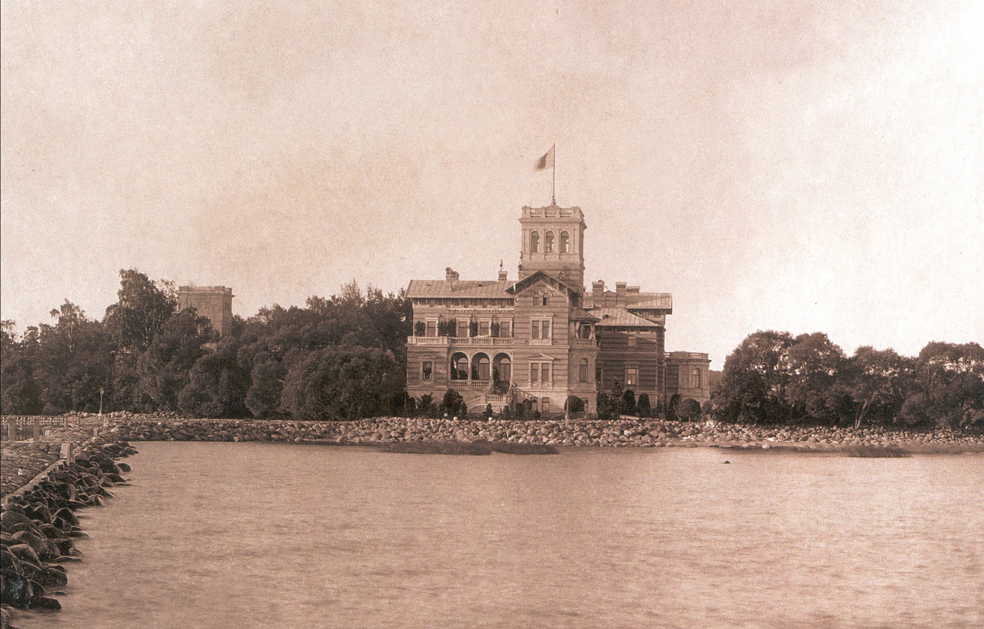 Lower_Summer_Residence_(Peterhof, Russia) circa 1900